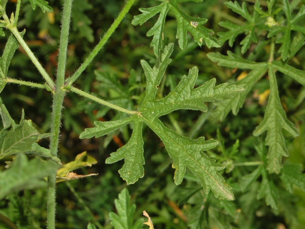 Malva alcea - Arquata S., Alessandria, Italy